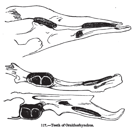 Dentition of a platypus